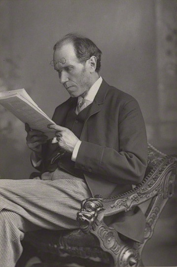 Picture of James Payn, by W. & D. Downey, published by Cassell & Company, Ltd, carbon print on card mount, 1890.